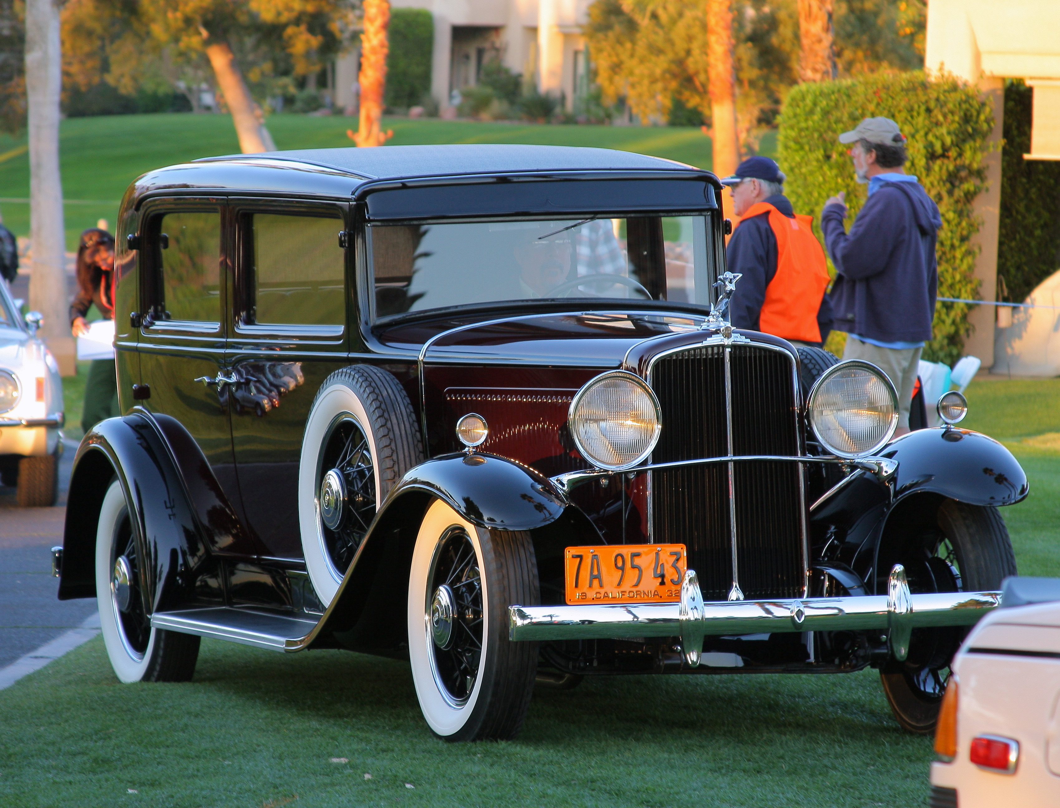 2014 Desert Classic Concours d'Elegance, Palm Springs, CA